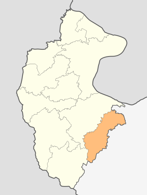 Map of Ruzhintsi municipality, Vidin Province